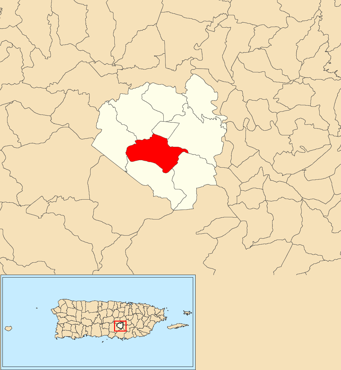 Pasto, Aibonito, Puerto Rico locator map